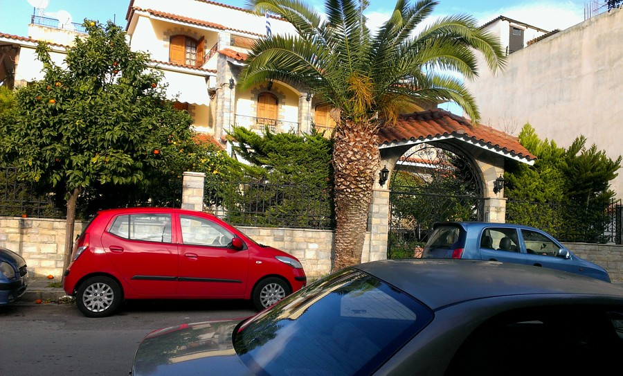 aigaleo